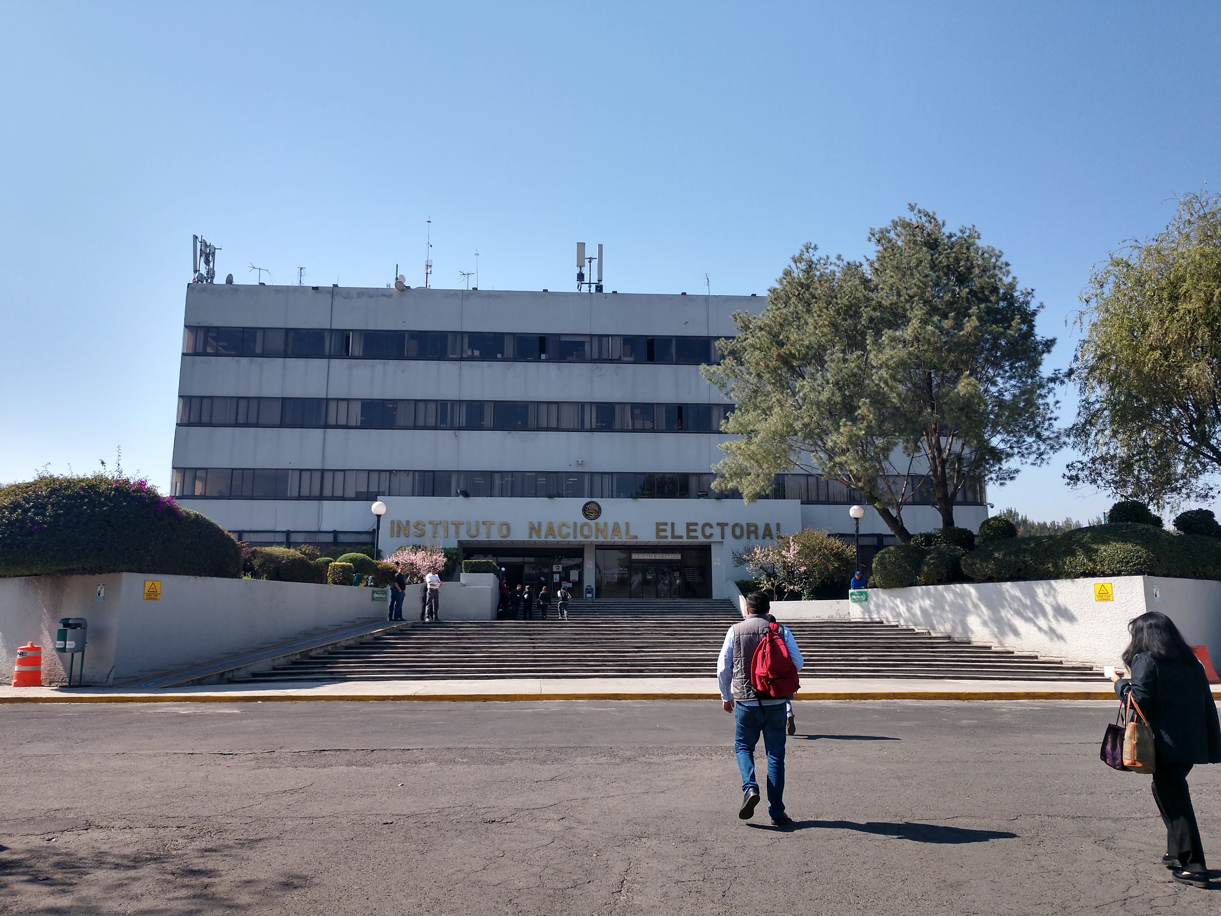 Instituto Nacional Electoral (INE) (English for National Electoral Institute) headquarters, Tlalpan, Mexico City.